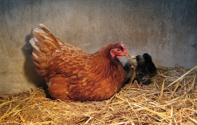 Adopted Mother Hen This broody hen was given some eggs to sit on and here is the result - five beautiful Maran chicks (one hidden).